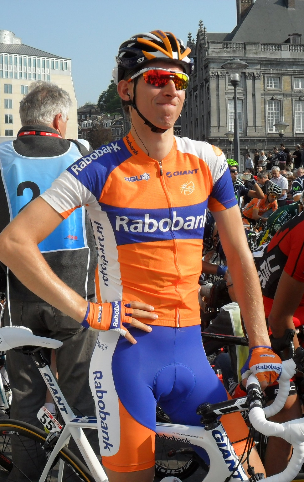 Bauke Mollema on Liège-Bastogne-Liège 2011 start line